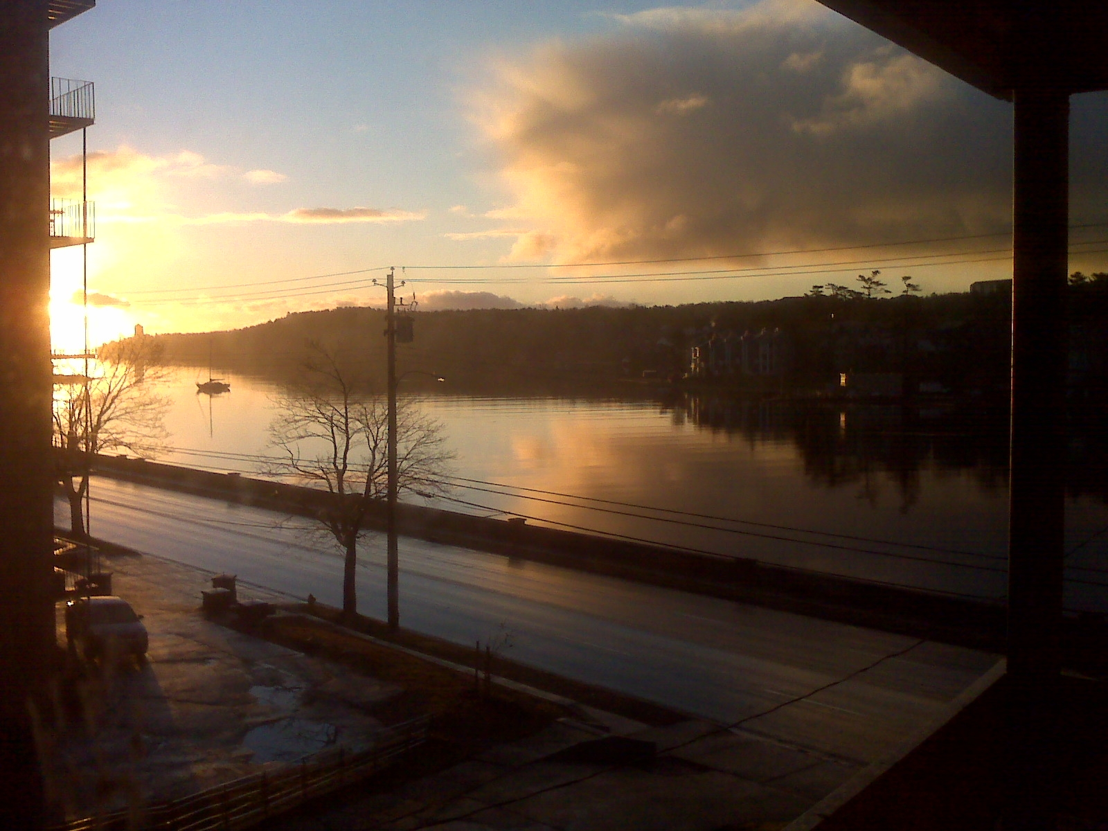 Northwest Arm, Halifax Nova Scotia, 7am on my balcony on Quinpool Rd